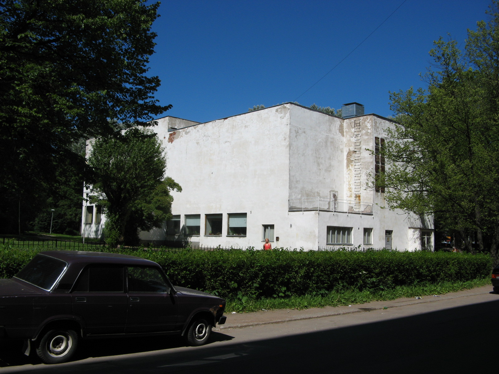 Alvar Aalto library in Vyborg, Russia.